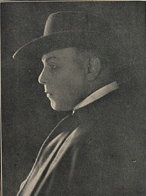 A photograph taken from the March, 1920 program featuring George Copeland with the Isadora Duncan Dancers.